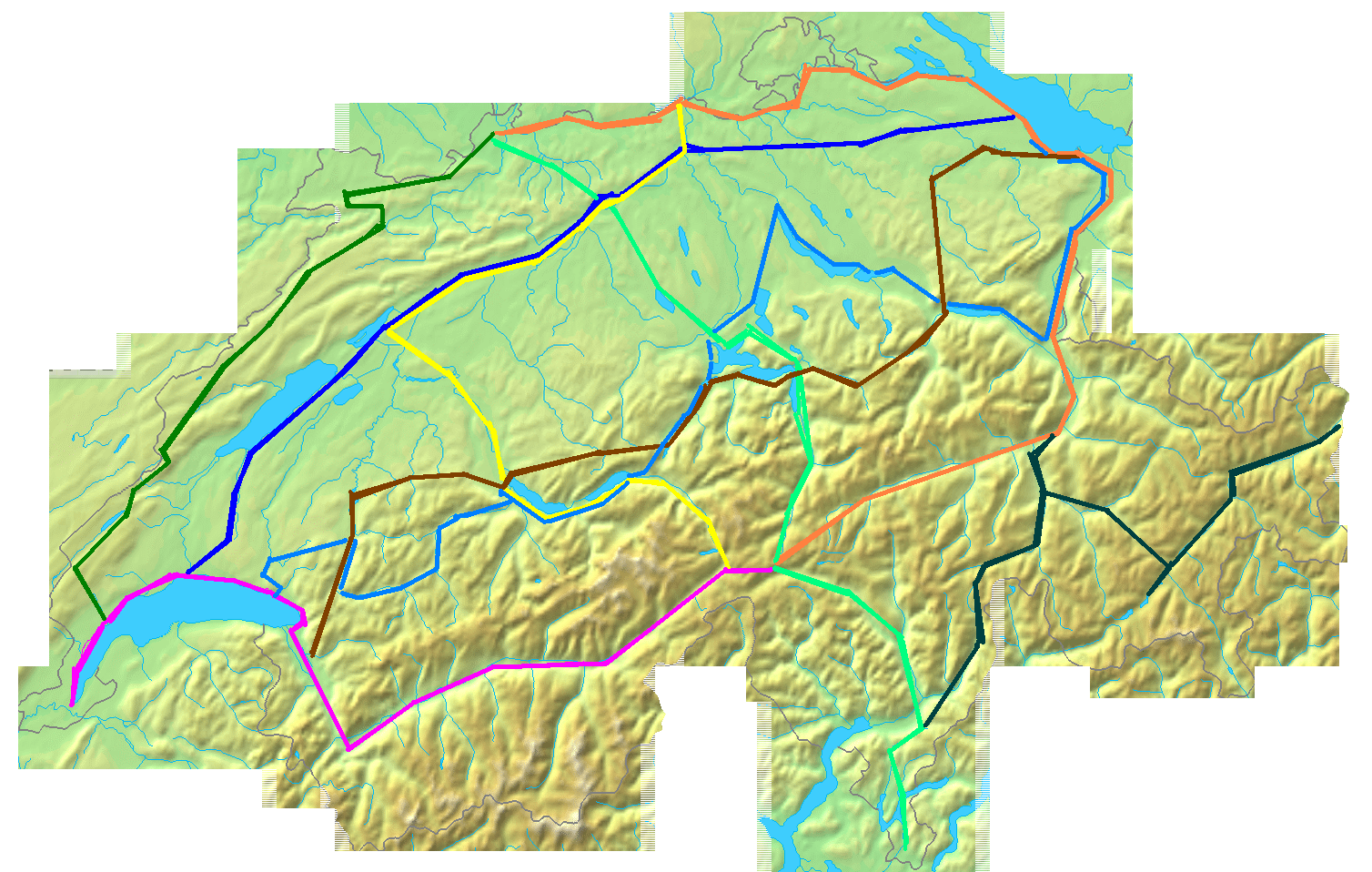 Biking roads of switzerland